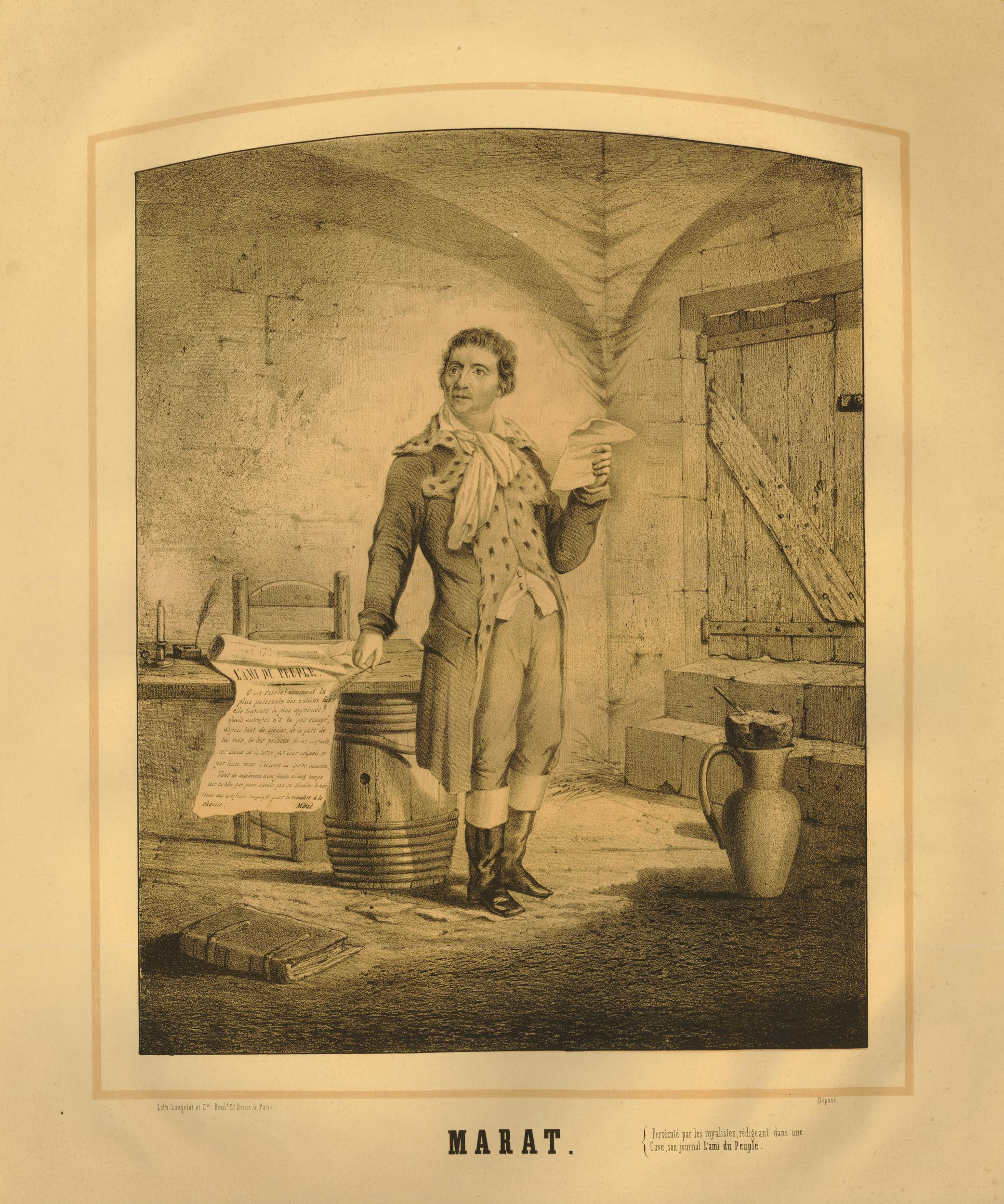 Marat hiding from the royalists and working in a cave; he is seen standing by a makeshift table upon which is a copy of his journal 'L'Ami du peuple'; he holds a letter in his left hand; on the right, a loaf of bread on a pot, and a wooden door. 1851 Lithograph, with tint stone